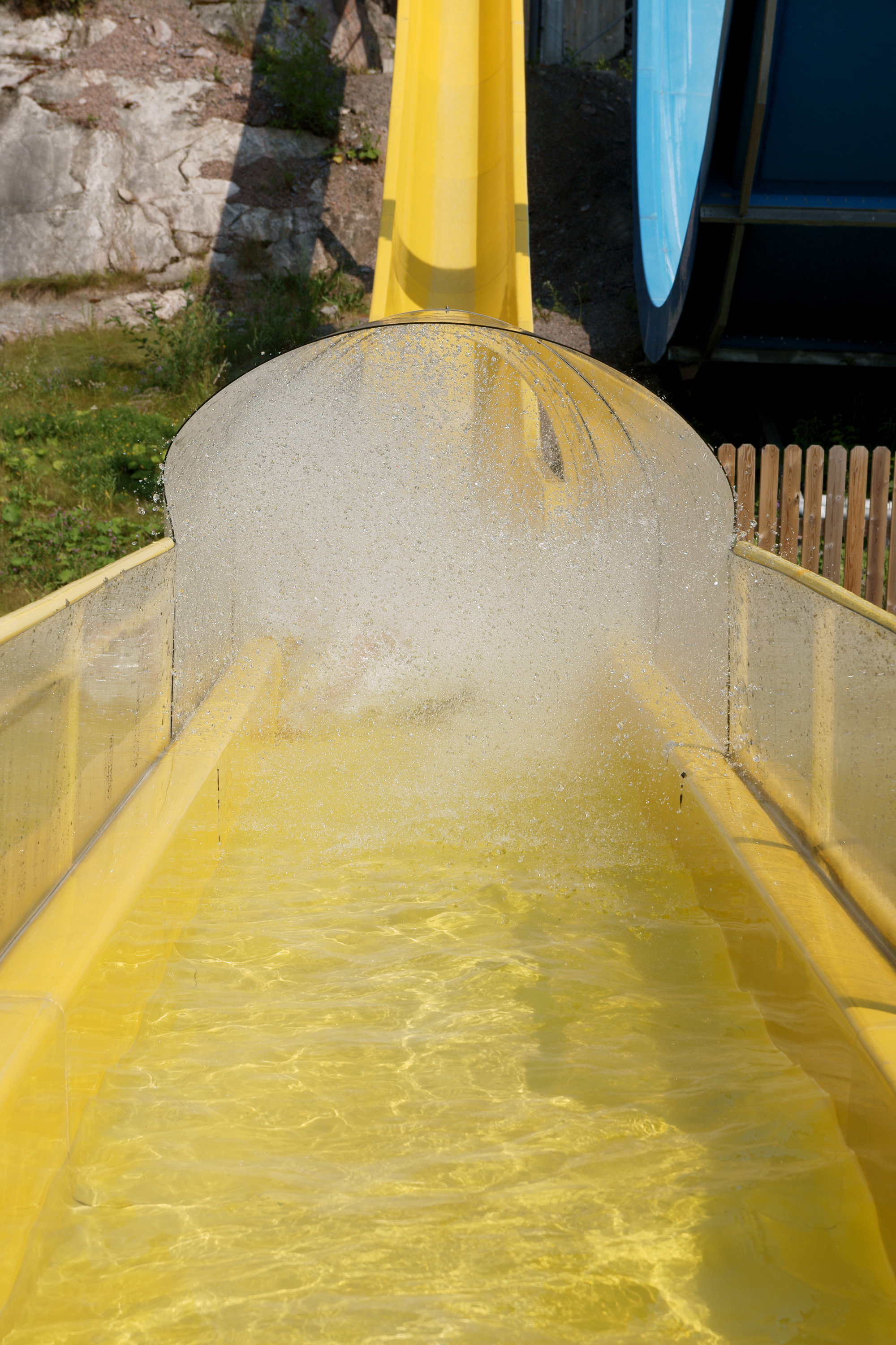 Water slide in water park Serena in Espoo, Finland.